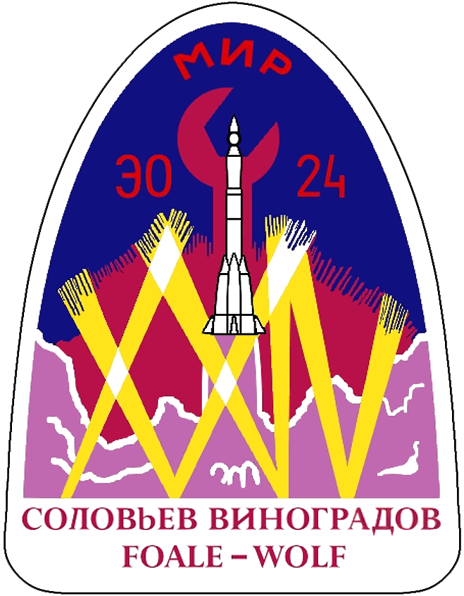 The official crew patch for the Russian Soyuz TM-26 mission, which delivered the EO-24 crew to the space station Mir.